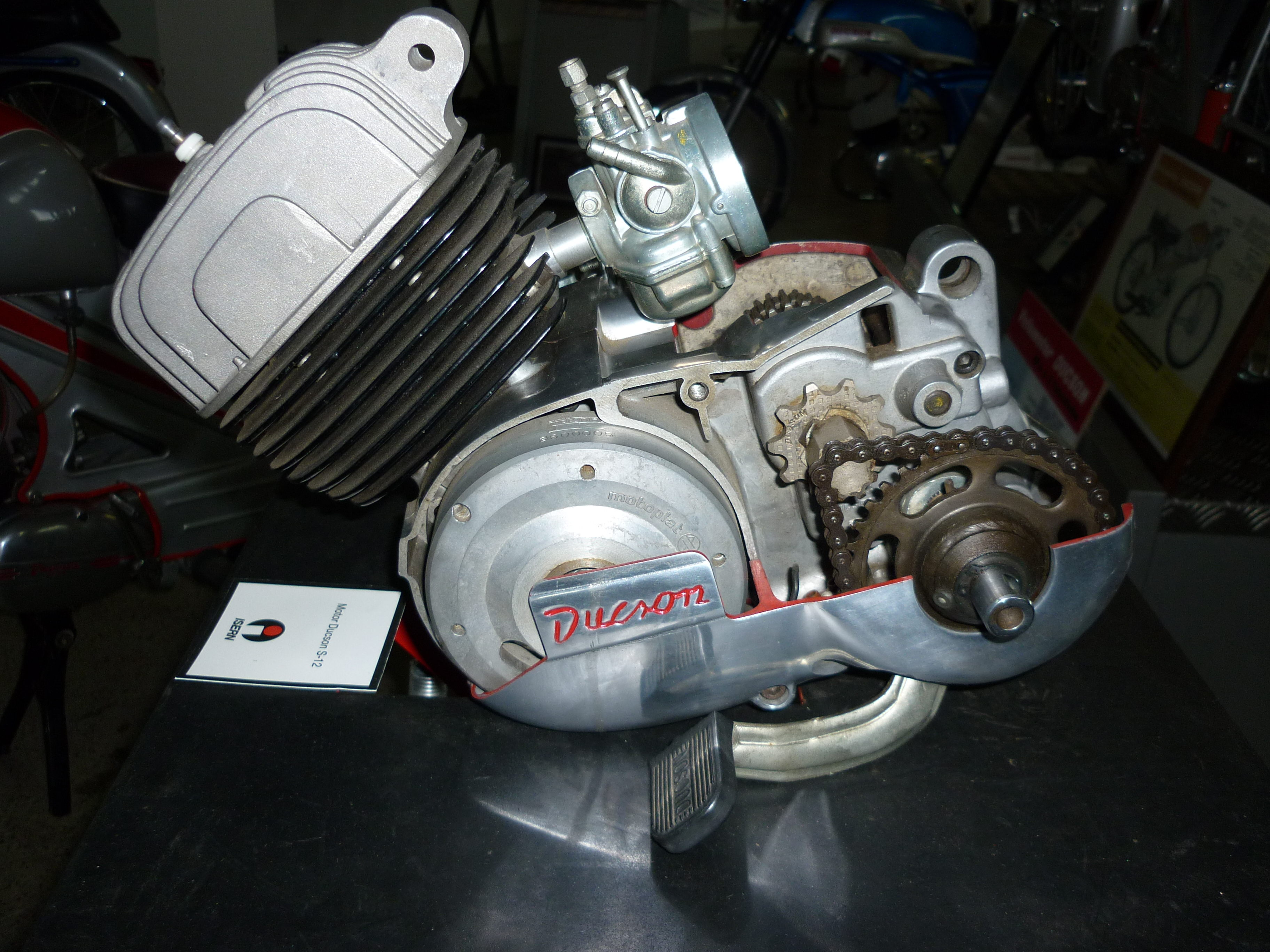 Ducson moped S12 49cc (around 1962), with a 4.5 CV engine and 90 Km/h. Isern Motorcycle Museum, Mollet del Vallès (Catalonia).